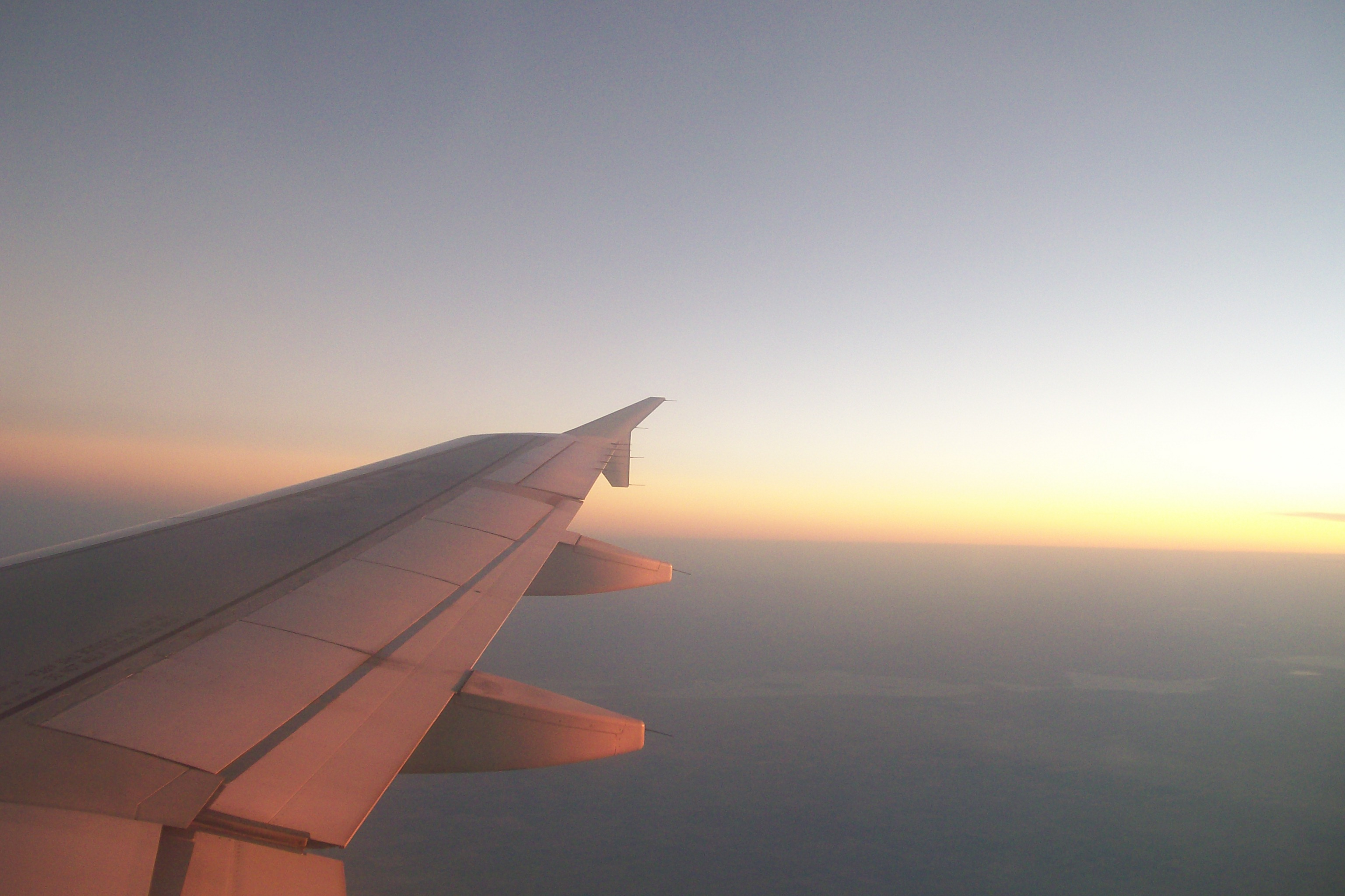 Sunset over the wing of an airplane.